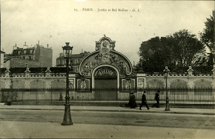 View of the "Bal Bullier" in Paris.